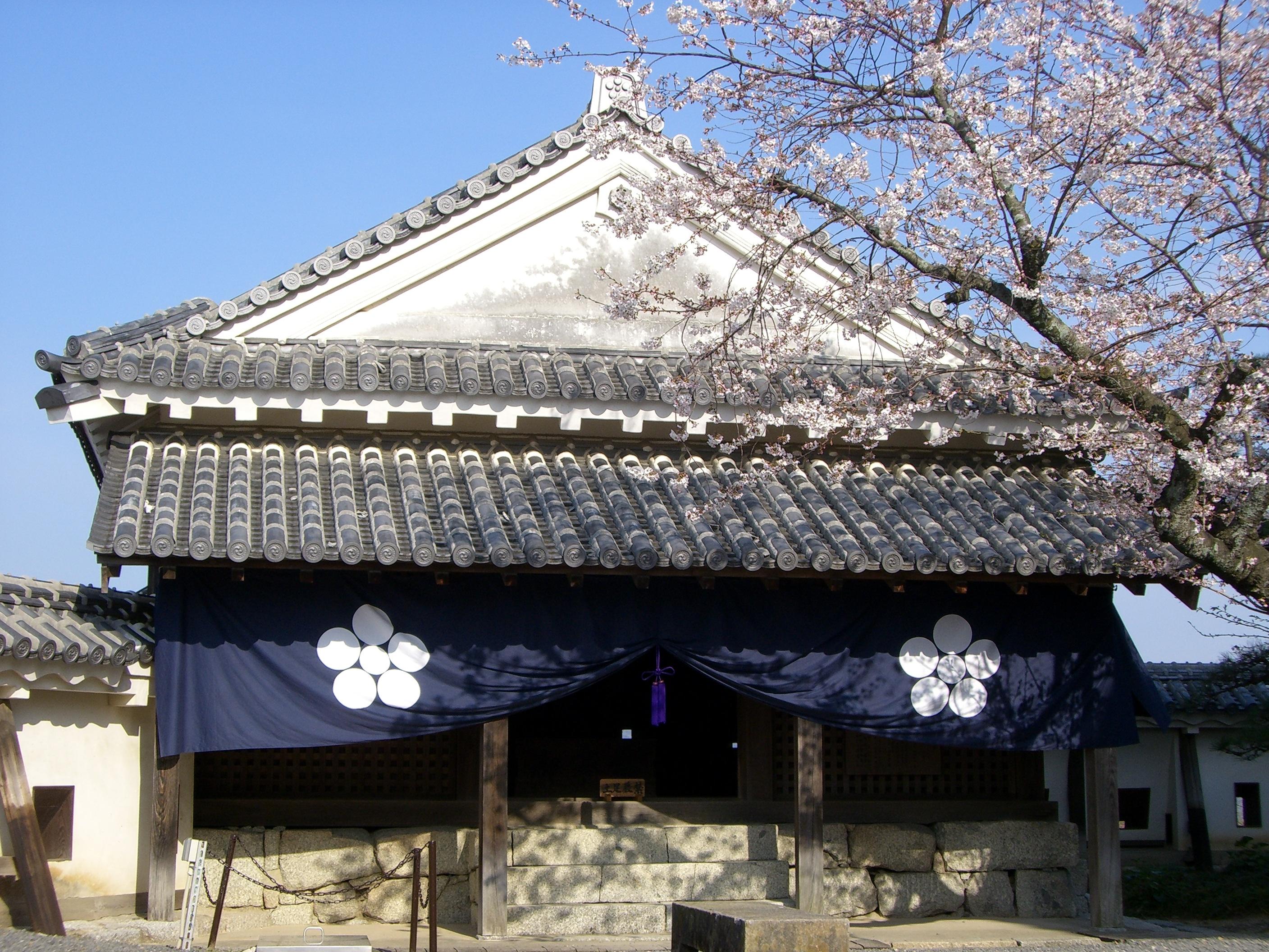 "TENJIN-YAGURA(Turret)" (The Matsuyama castle, Ehime JAPAN)：The place where this turret stands is the "demon's gate"(the northeastern quarter is an unlucky quarter). The idol of Michizane Sugawara, deified scholar of the ninth century, also called TENJINSAMA, is kept here.